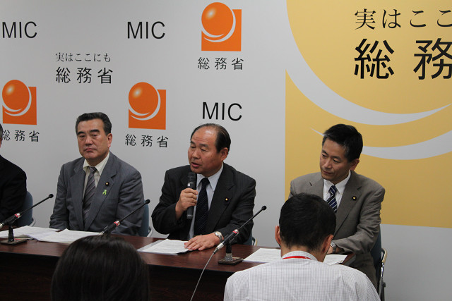 Ryō Shuhama, Akio Fukuda and Takashi Morita, Parliamentary Secretaries for Internal Affairs and Communications, attended the press conference at the Central Government Building No.2 in Chiyoda Ward, Tōkyō Metropolis on September, 2011. (For terms of use, see 総務省｜当省ホームページについて.)